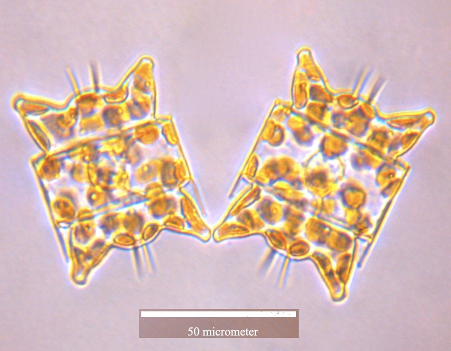 The diatom Odontella aurita (400X magnification) The photograph was taken with a Leica DFC 320 microscope camera.